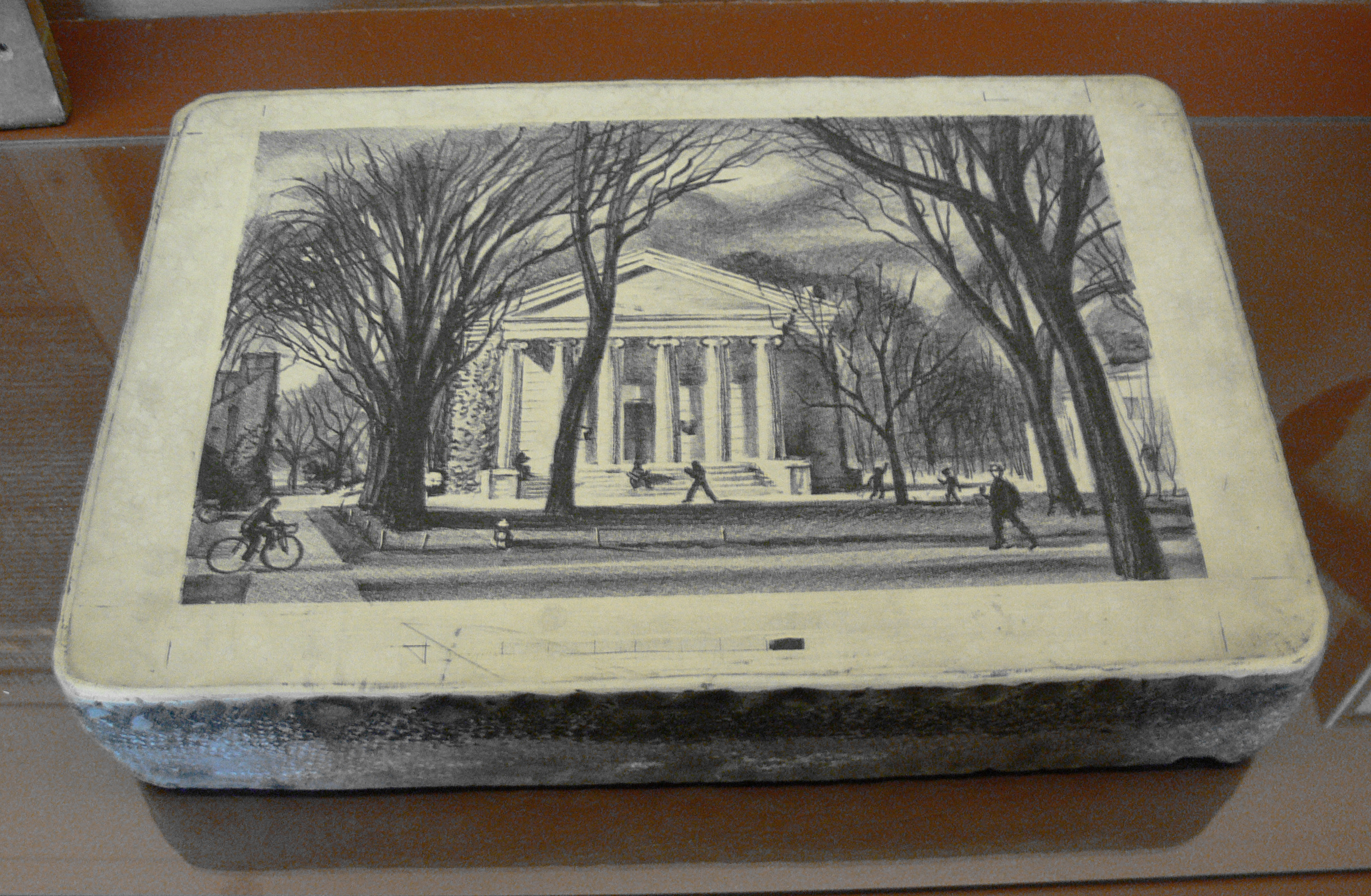 Stone used for lithography print with a Princeton University motif. Collection: Princeton University Library. Princeton University; Princeton, NJ